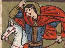 18th-century Armenian icon of St Sarkis the Warrior, mounted on a white horse.